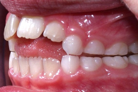 Alveolar Prognathism - Caused by thumb sucking and tongue thrust. Giorgio Fiorelli - Italy